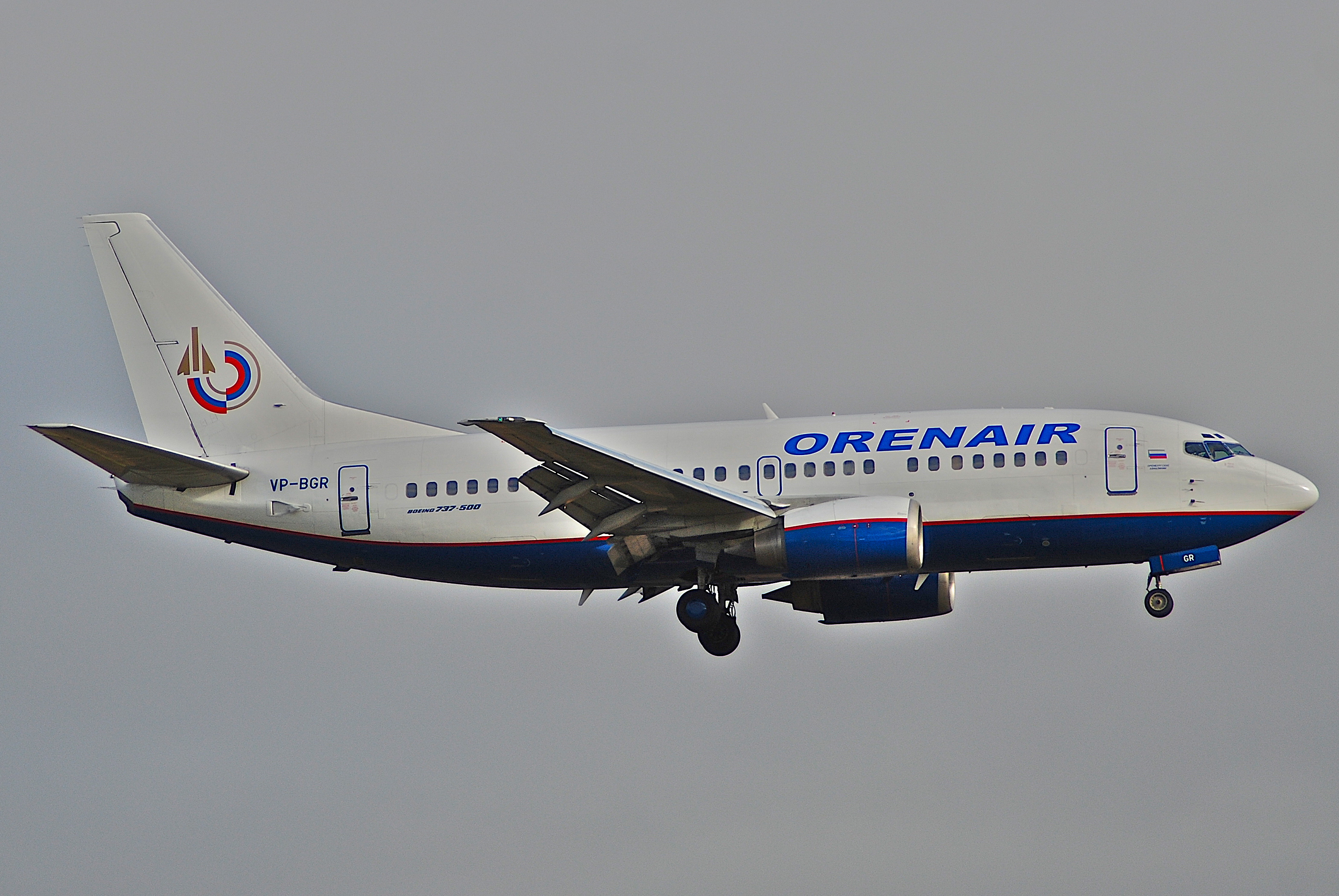 This Boeing 737-505 took its first flight on March 12, 1992...(c/n 25790/ 2245) 20/03/1992 Braathens LN-BRU 27/03/2002 ILFC N651LF 01/09/2002 Norwegian Air Shuttle LN-BRU 01/07/2003 Estonian Air ES-ABG 07/10/2006 Orenair VP-BGR named Vladimir Shemelov stored 10/2011